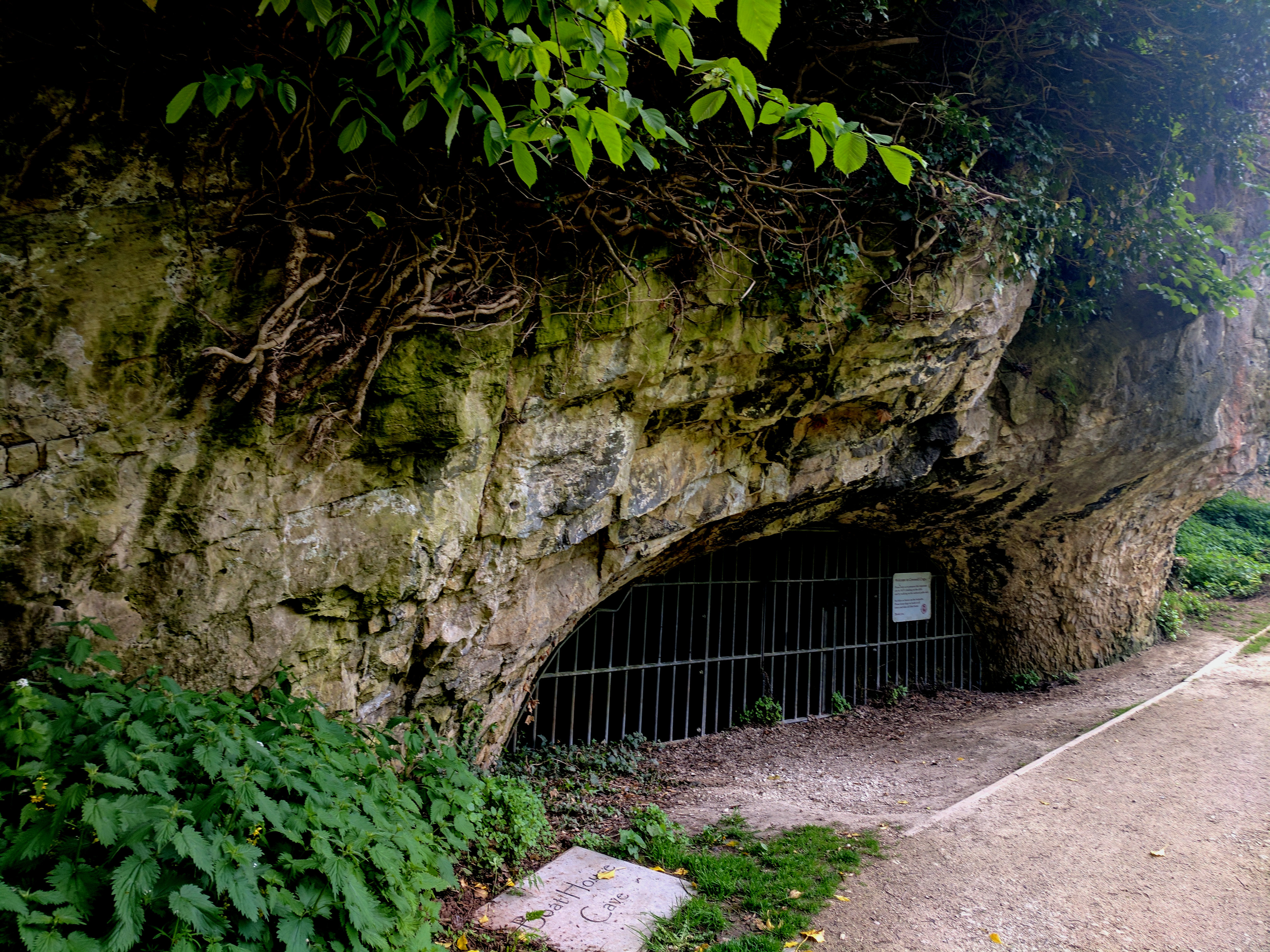 Boat House Cave, Creswell Crags, Palaeolithic and later prehistoric sites at Creswell Gorge, including Boat House Cave and Church Hole Cave Wikidata has entry Q17642924 with data related to this item.